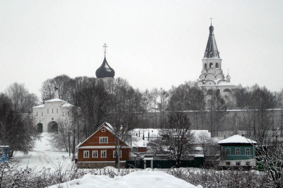 Alexandrov Kremlin (Vladimir oblast, Russia)